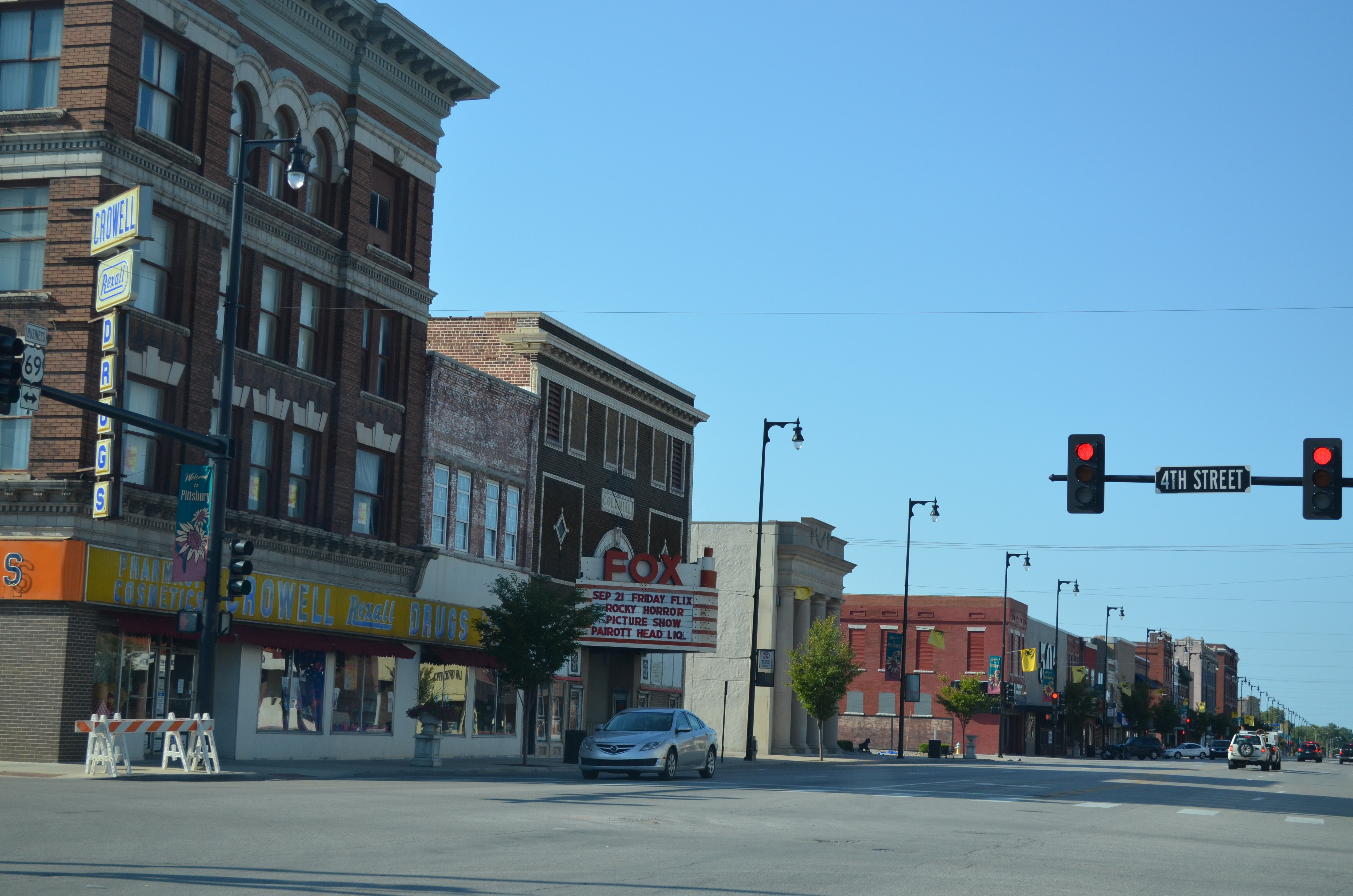 Historic Downtown Pittsburg, Kansas with the Colonial Fox Theater